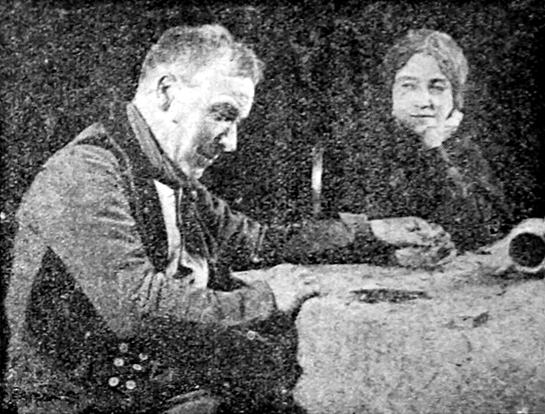 Still photograph from the 1915 film My Old Dutch, featuring Albert Chevalier and Florence TurnerCaption: Joe counts up his fast-dwindling savings